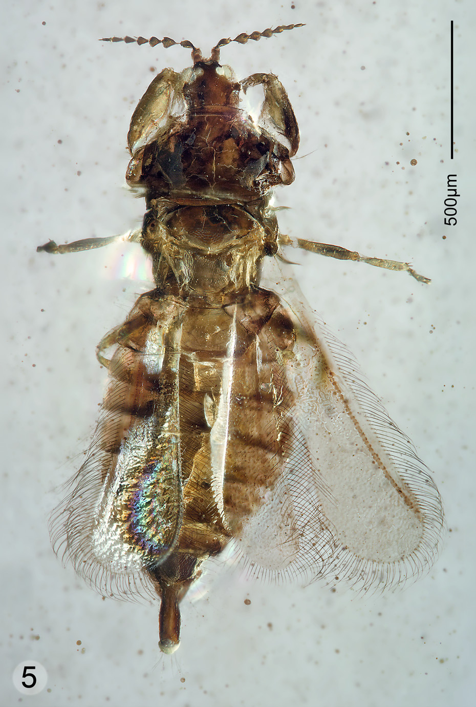 FIGURES 5–8. Rohrthrips spp. (5) R. maryae holotype male, dorsal view.